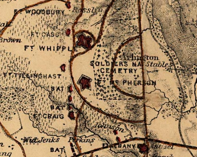 Arlington National Cemetery in Arlington County, Virginia, in the United States in 1865. Arlington Ridge Road is the vertical red line in the center-right. Several forts and batteries protecting the city of Washington, D.C., can be seen on the map.